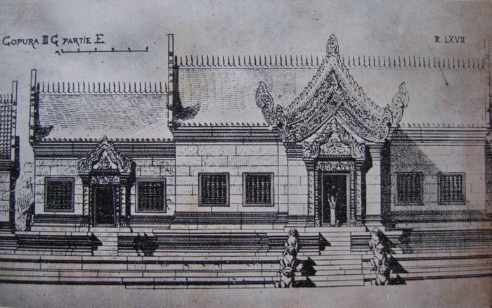 illustration gopura5